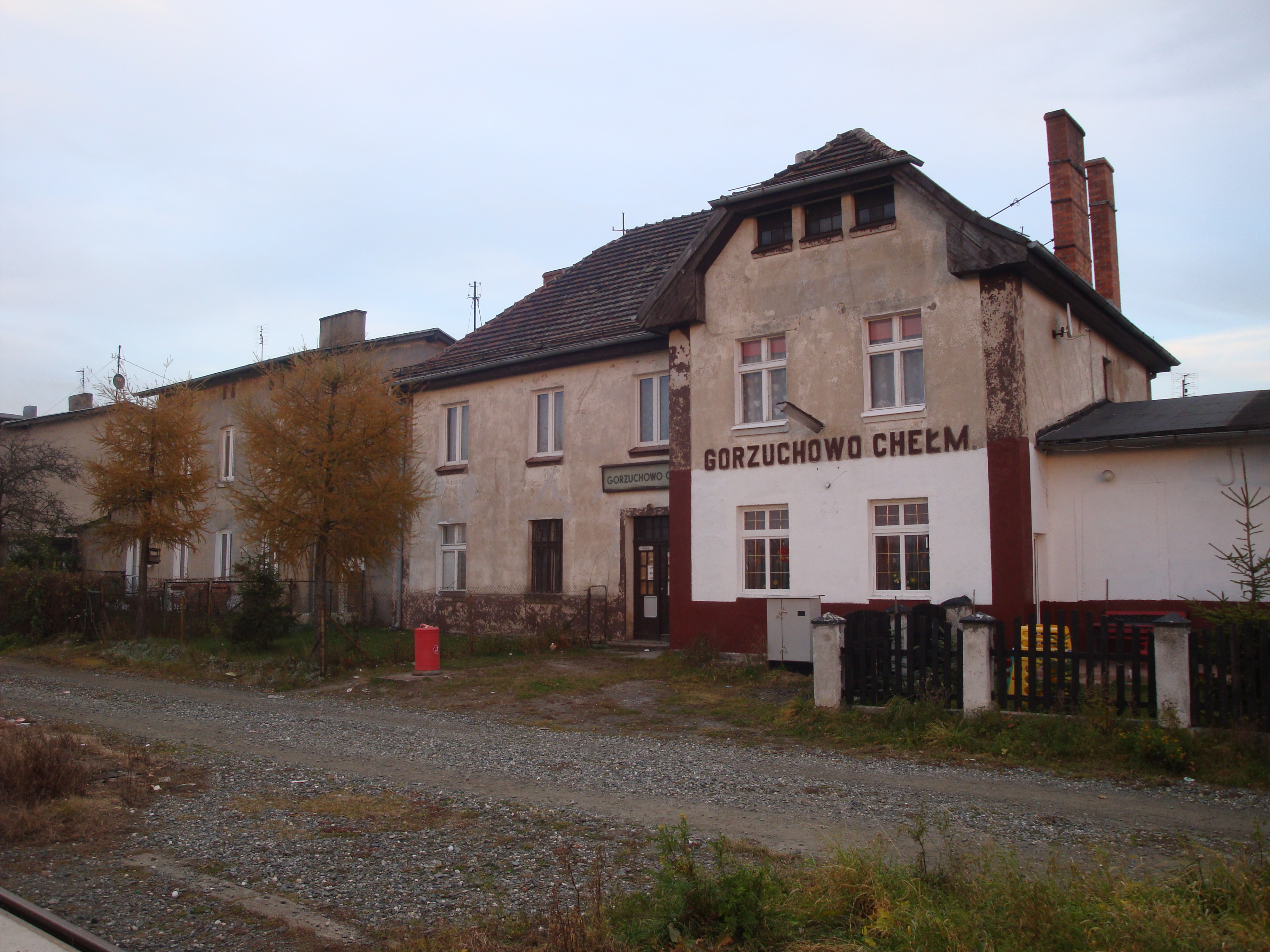 Train stop in Gorzuchowo, Poland - Google Maps - Google Earth